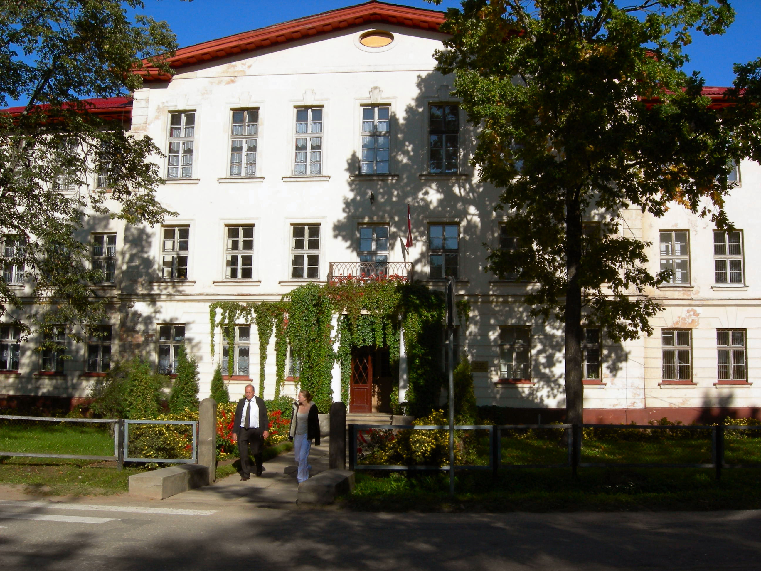 Vilaka State Gymnasium